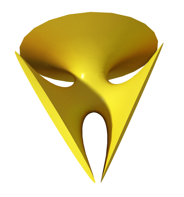 Rendering of the trinoid minimal surface. It has three catenoidal ends and is topologically equivalent to a sphere with three points removed.